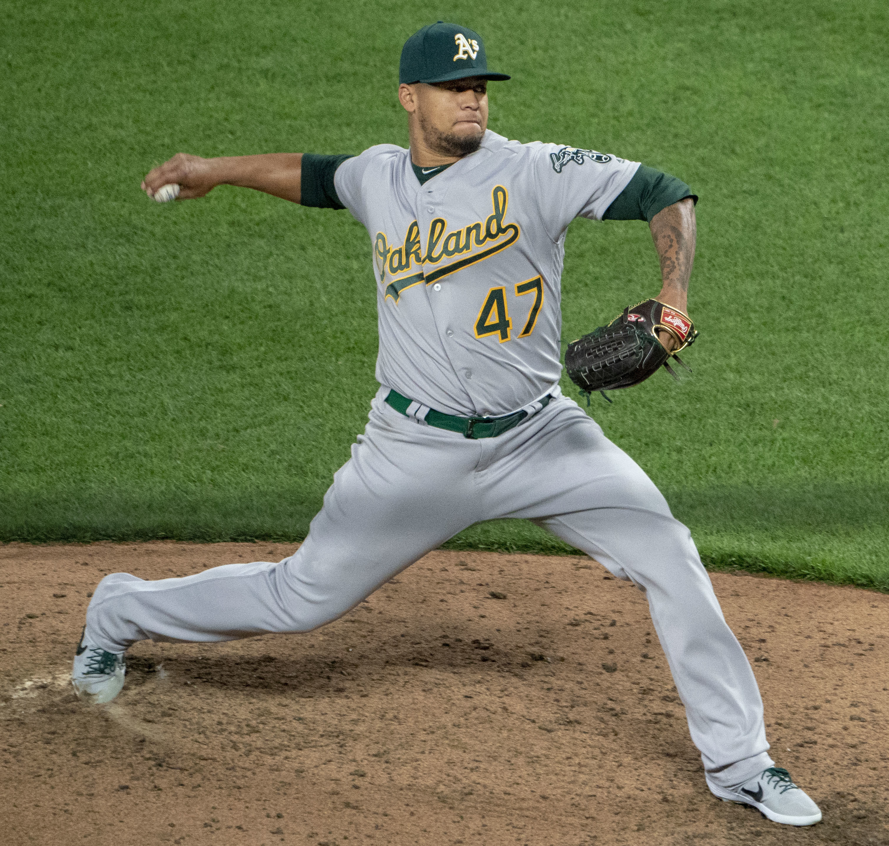 Athletics at Orioles 4/10/19